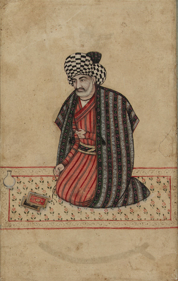 Portrait of Allamah al-Majlisi Opaque watercolor on paper H: 16.3 W: 10.2 cm Iran